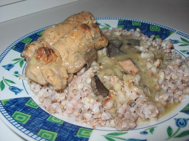 Pork Kruchenyky (ukrainian zrazy, meat roulade) served with buckwheat groats and a mushroom sauce